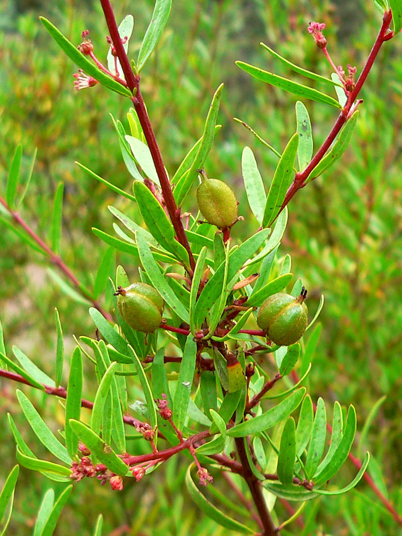 Photo of Tetracoccus dioicus at the Regional Parks Botanic Garden